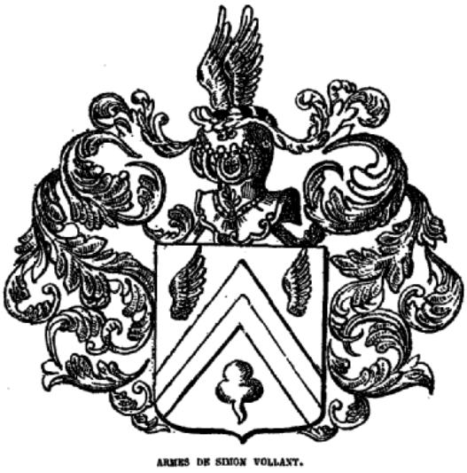 Coat of arms of the French engineer and architect Simon Vollant (1622-1694).